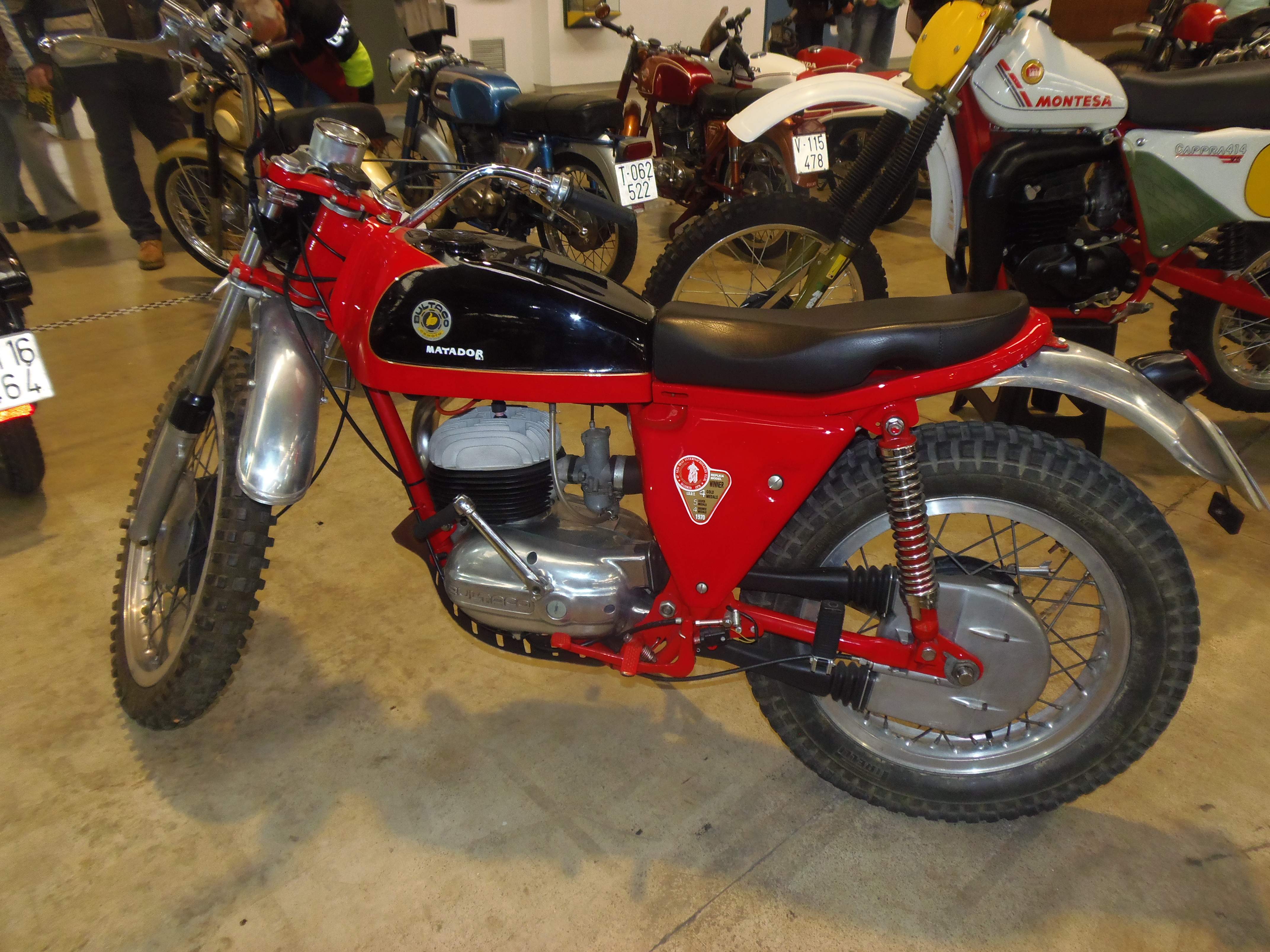 Bultaco Matador MK3, 1970